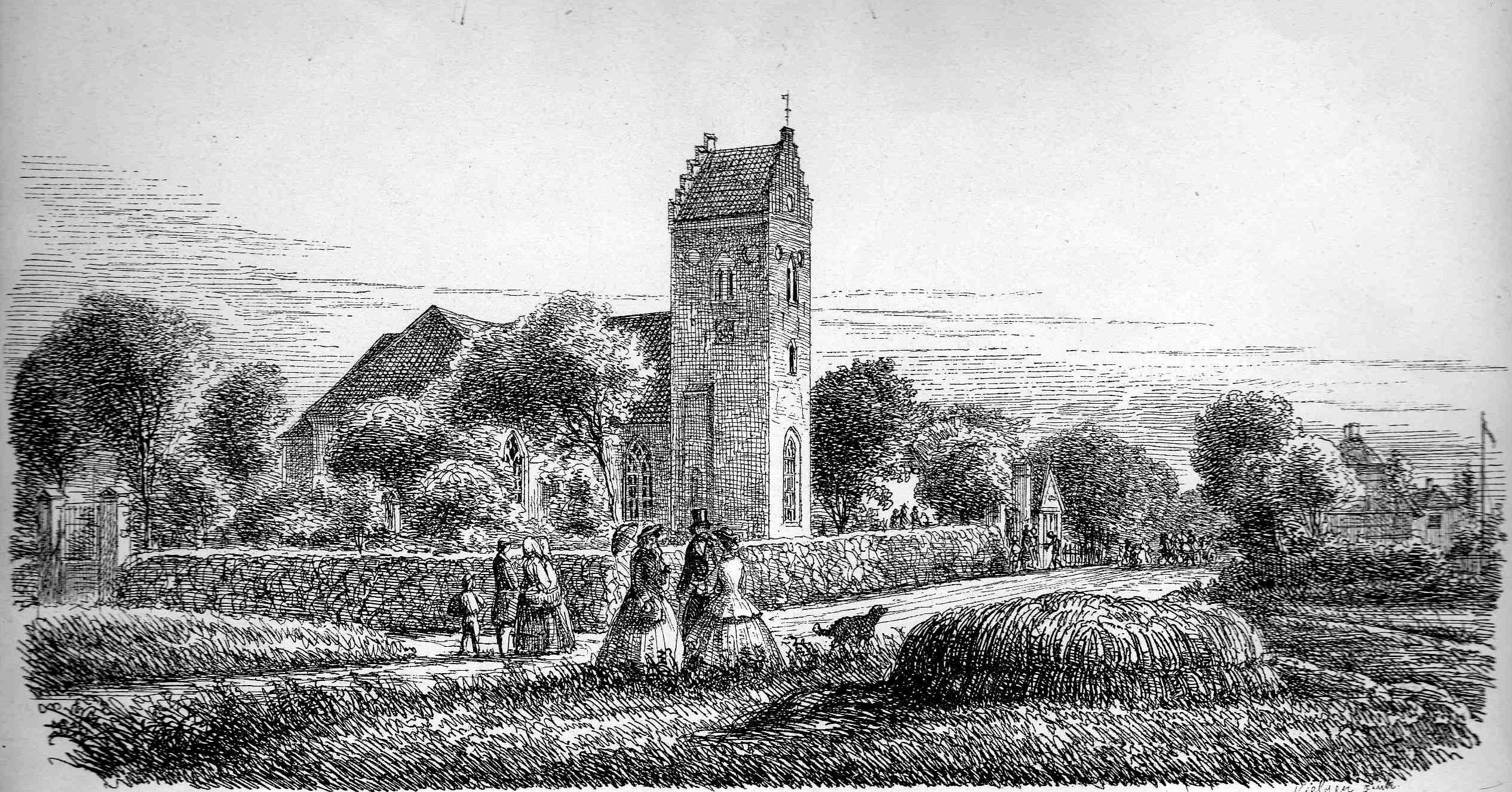 Scanned by myself from the old book in 2007. The book was graciously lent to me by Det Kongelige Garnisonsbibliotek.